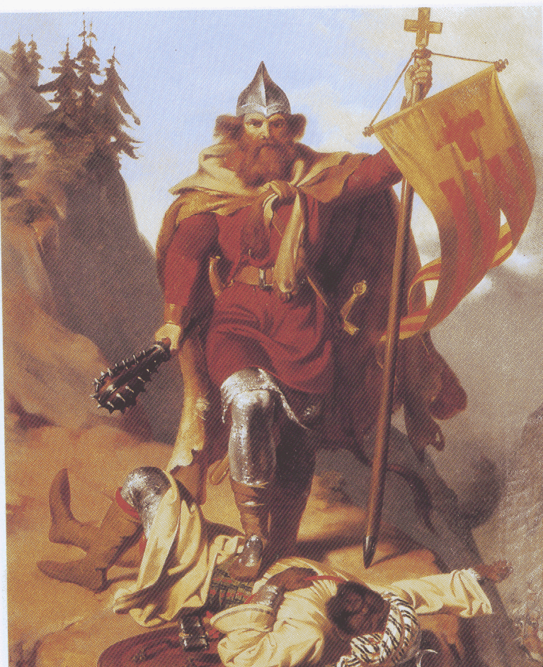 Otger Cataló, romantic representation of the character invented to explain the origin of the word catalan, according to a painting of Claudius Lorenzale